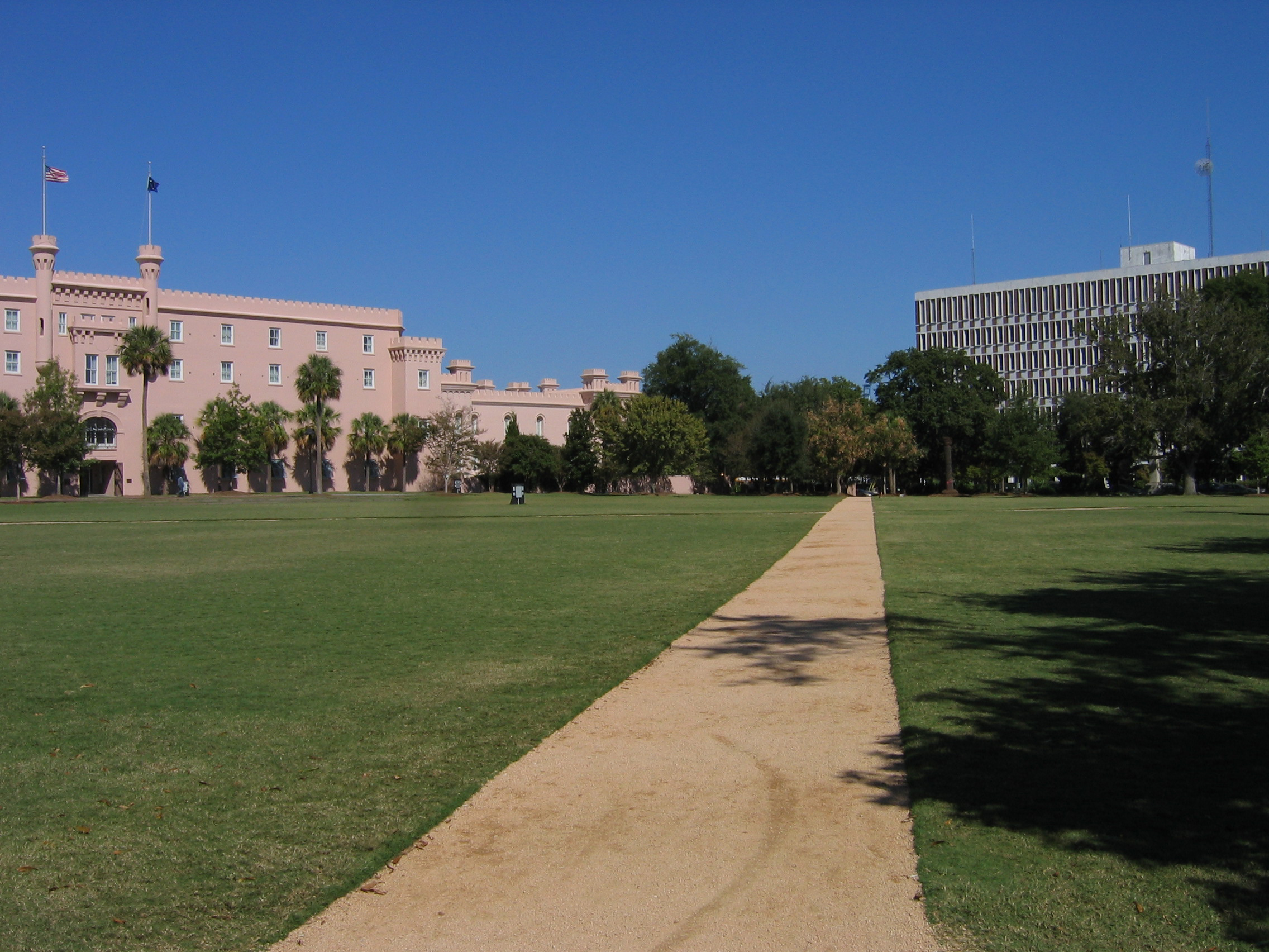 Photo by User:AudeVivere